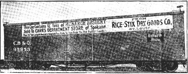 CB&Q boxcar loaded with hosiery.